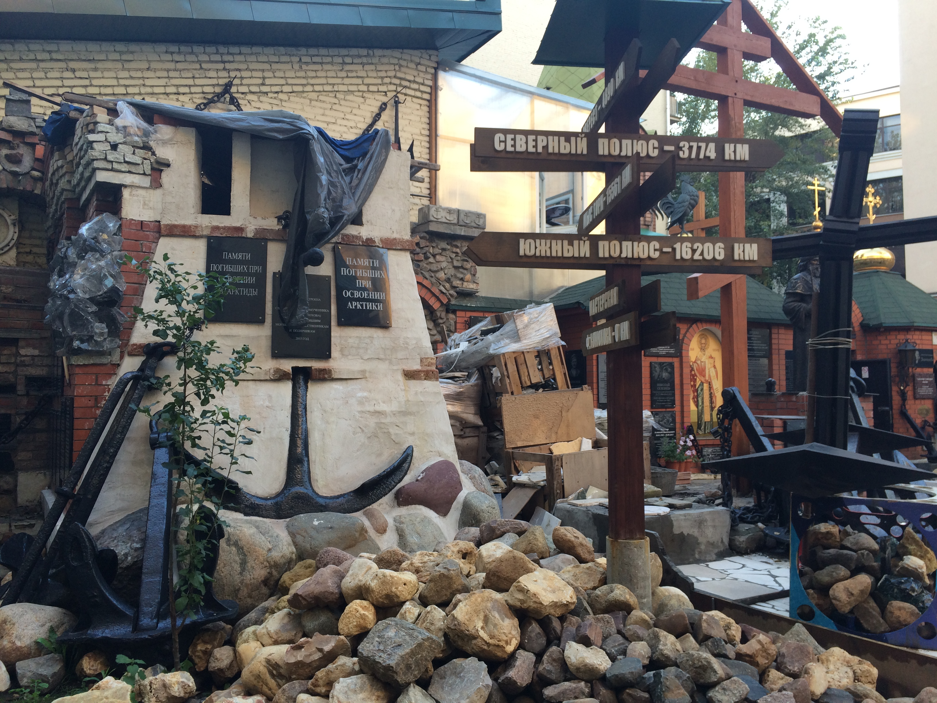 Fyodor Konyukhov's creative workshop and chapel in memory of dead sailors and travelers, on Sadovnicheskaya Street in Moscow. It was built in 2004 and consecrated in the name of St. Nicholas the Miracle Worker and assigned to the Vysoko-Petrovsky Monastery.